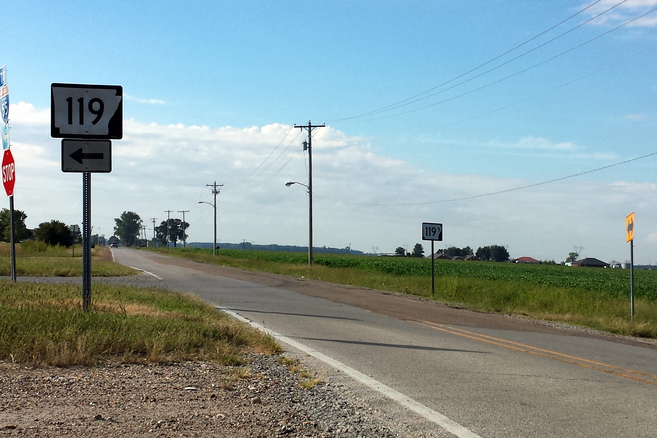 Highway 119Y at the Highway 119 intersection in Osceola, Arkansas